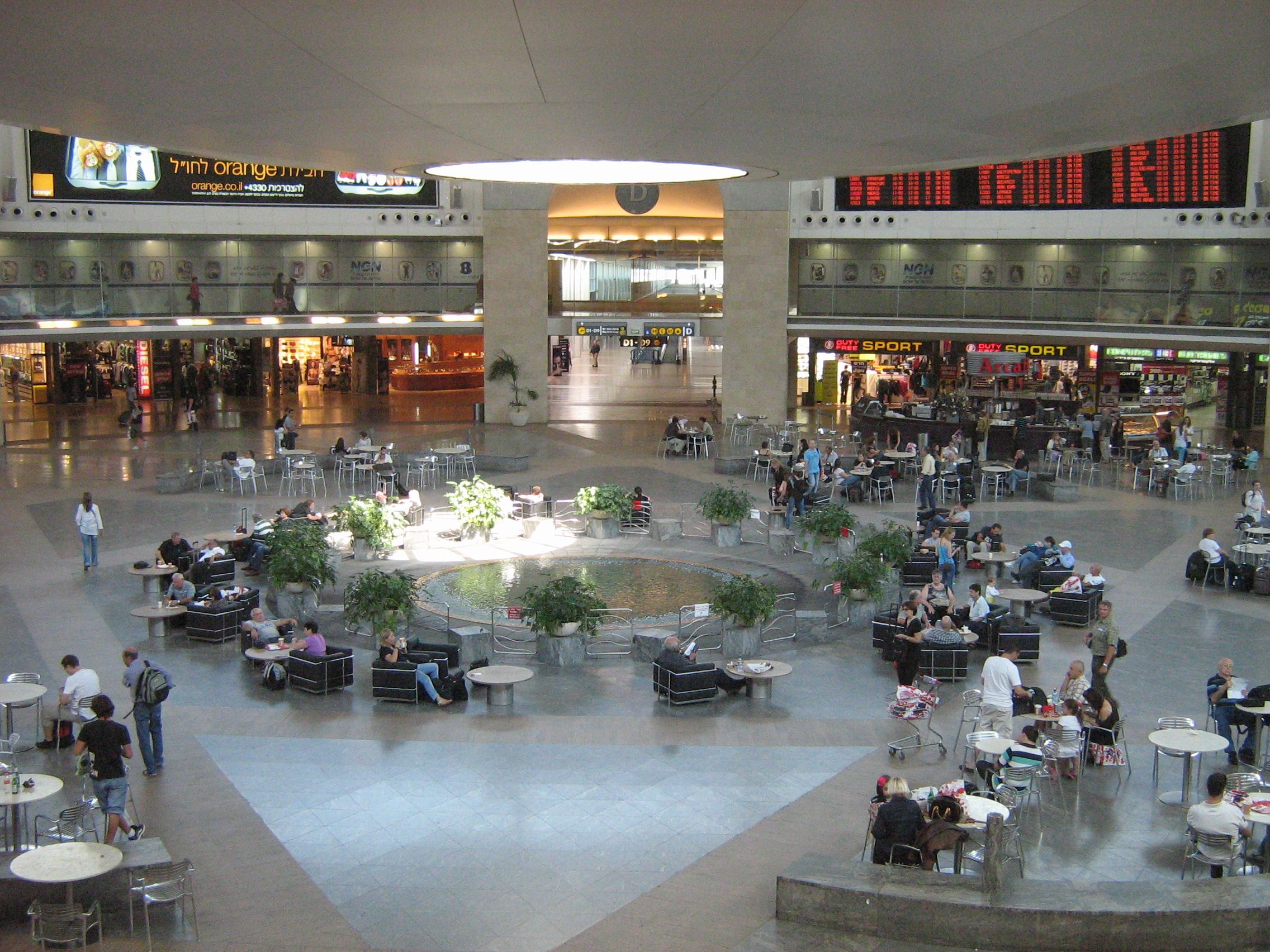 Ben Gurion International Airport, Tel Aviv, Duty Free area